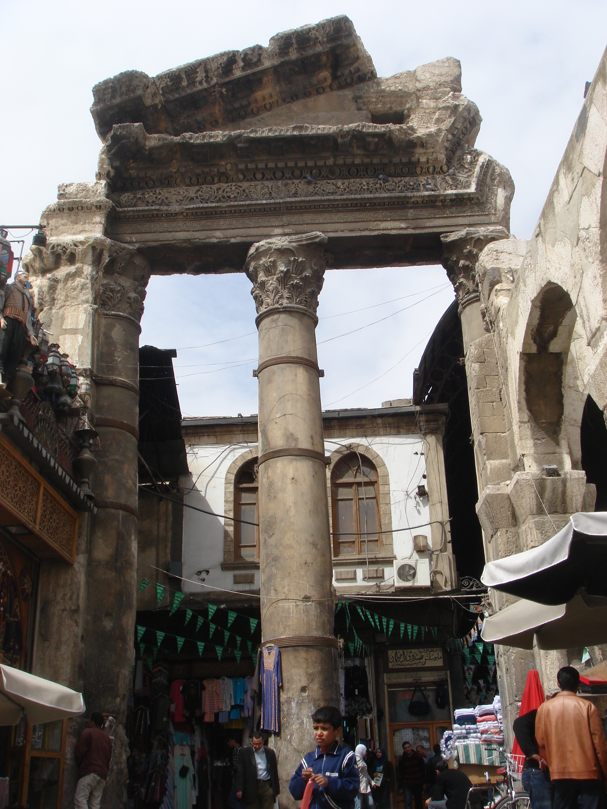 Ancient City of Damascus (Syrian Arab Republic)